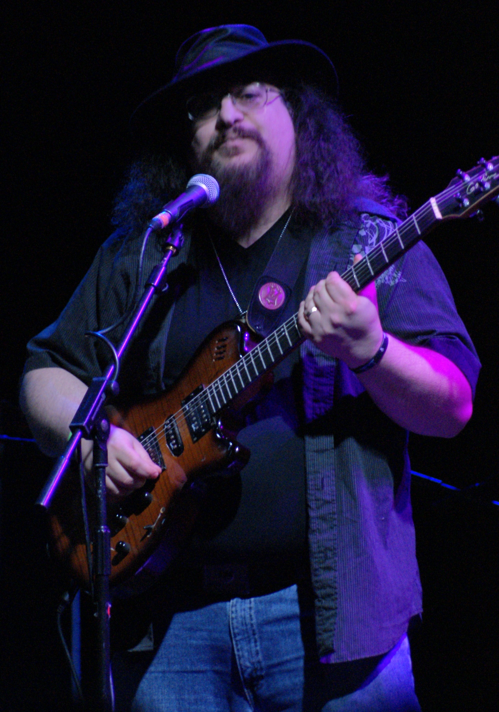 at Marillion Weekend, Port Zelande, 2013